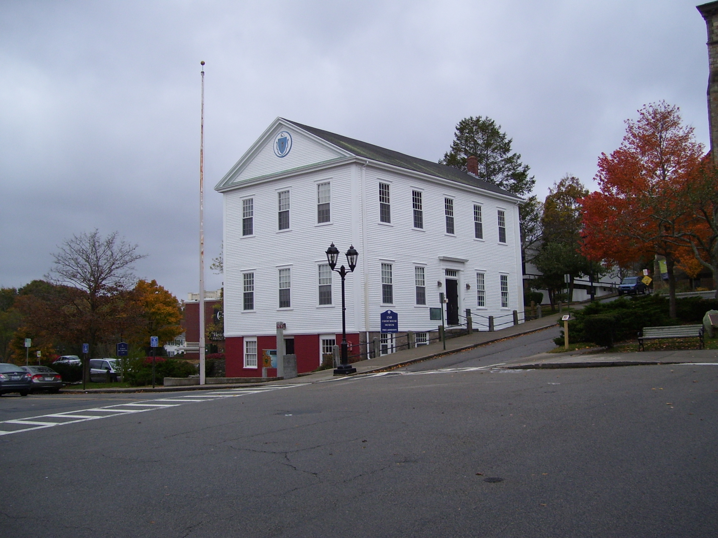 My 2009 photo of the Old County Courthouse in Plymouth MA.